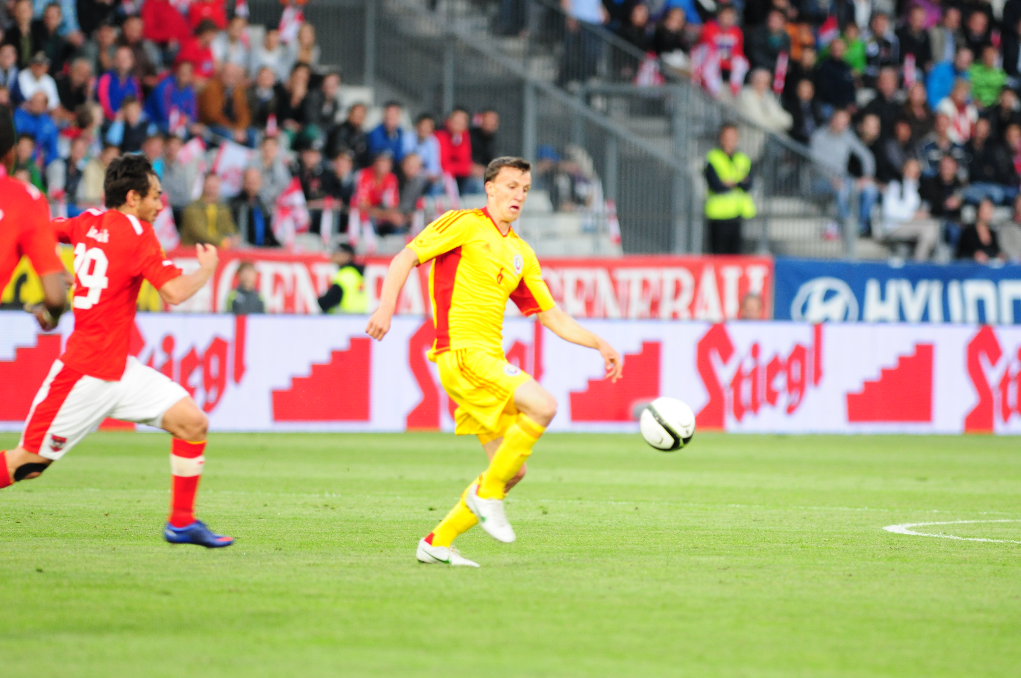 Exhibition game Austria vs. Romania at 5st. June 2012